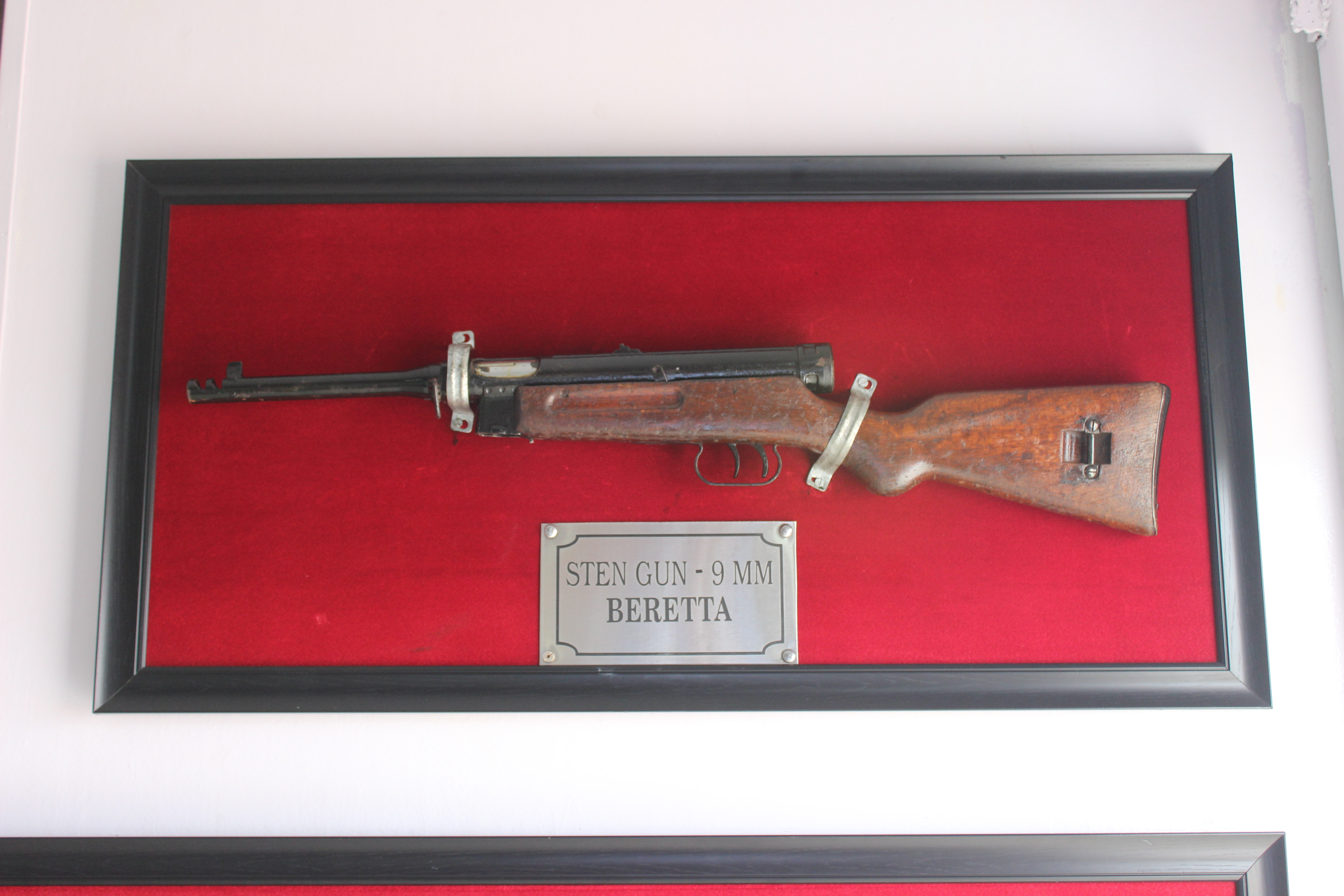 A museum with antique weapons, a park with war trophies, a rock climbing facility for adventure seekers, a small restaurant for foodies and a souvenir shop for those who wish to carry a remembrance from "yodhasthal" Indian Army at Bhopal